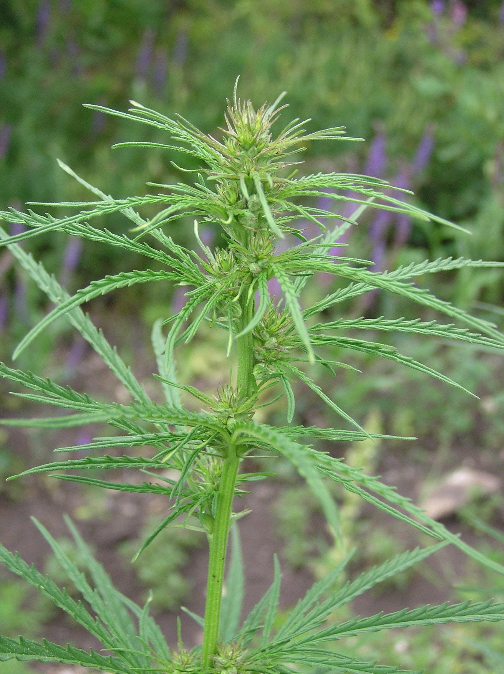 Wild marijuana (Cannabis sativa var. ruderalis Janisch.; syn.: Cannabis ruderalis Janisch.), top of female plant. Habitat: along roadside at the edge of upland deciduous forest. Vicinity of Saratov city, Russia.